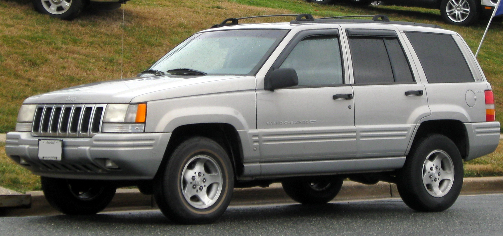 Jeep Grand Cherokee photographed in Silver Spring, Maryland, USA.